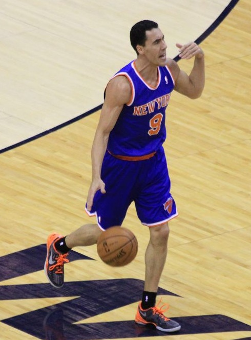 Pablo Prigioni with the ball, playing for New York Knicks at Washington Wizards.